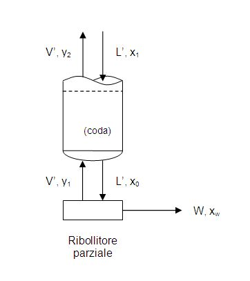 Bottom of a distillation column.